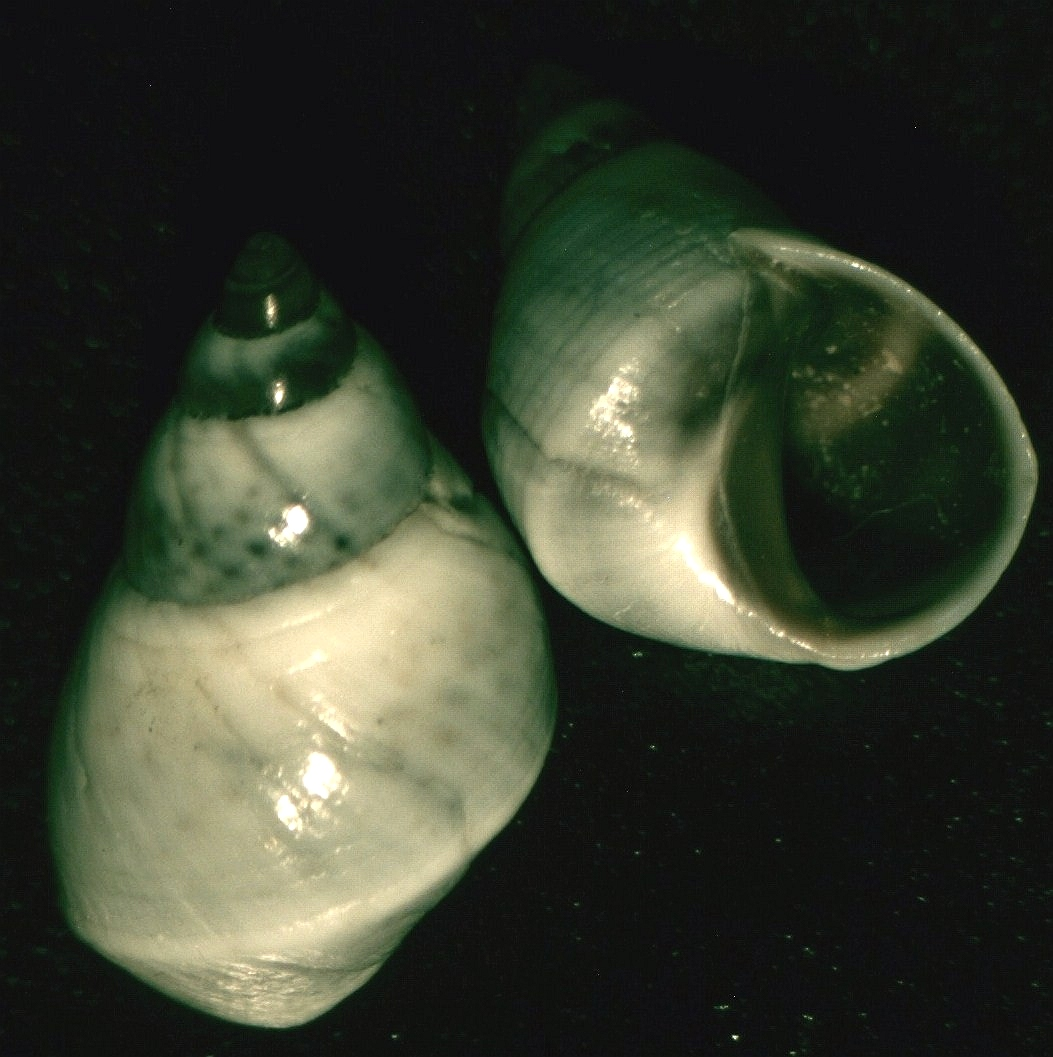 Echinolittorina paytensis (R. A. Philippi, 1847), a periwinkle from the family Littorinidae; Peru